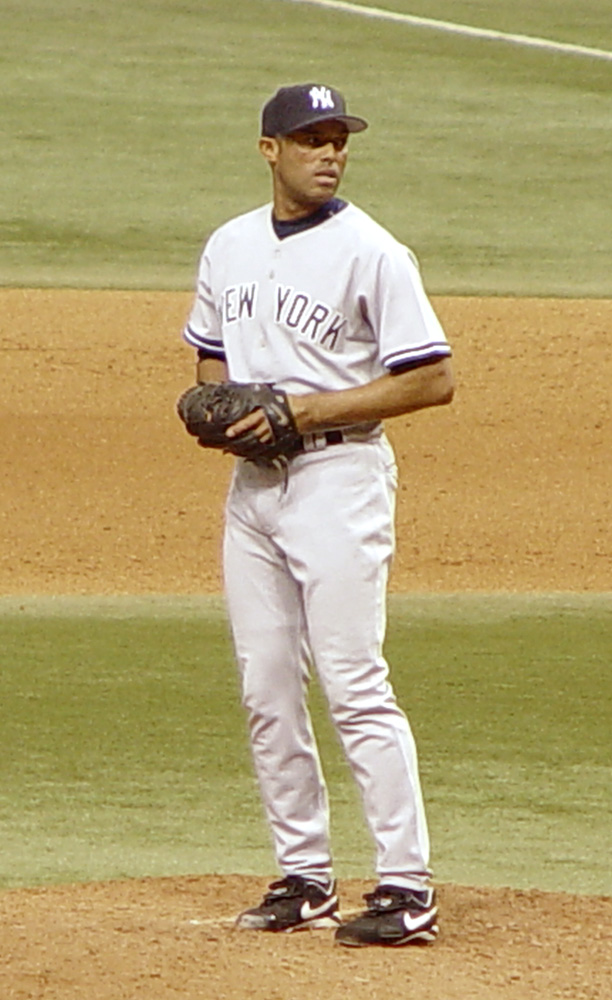 Mariano Rivera, perhaps the greatest relief pitcher ever. 03:26, 15 September 2005 . . Googie man . . 612×1000 (208 KB)